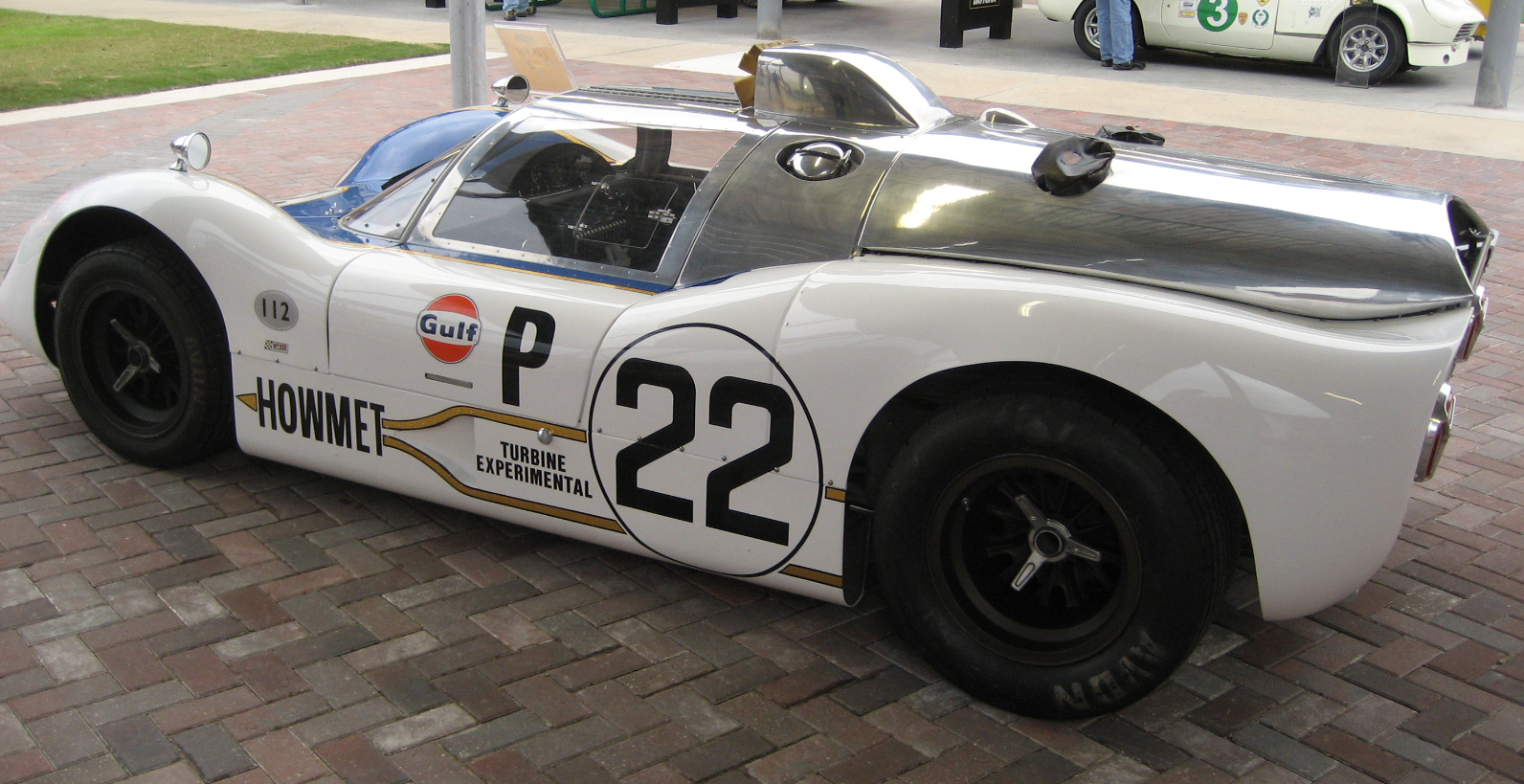 A Howmet TX turbine sports car. Built by McKee Engineering (McKee Mk.9). Chassis TXGTP3.